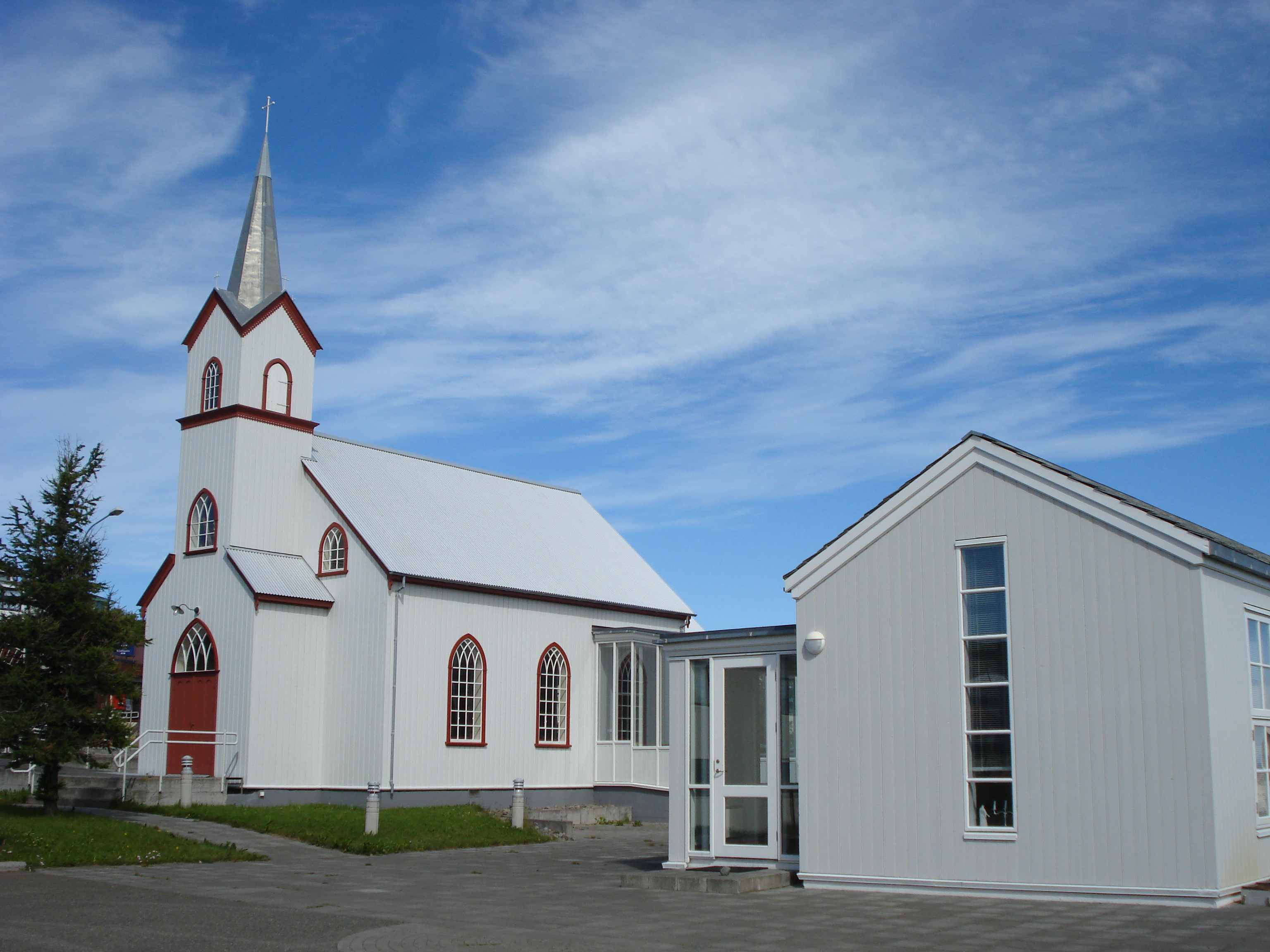 Church / Kirkja in Vopnafjörður, Iceland